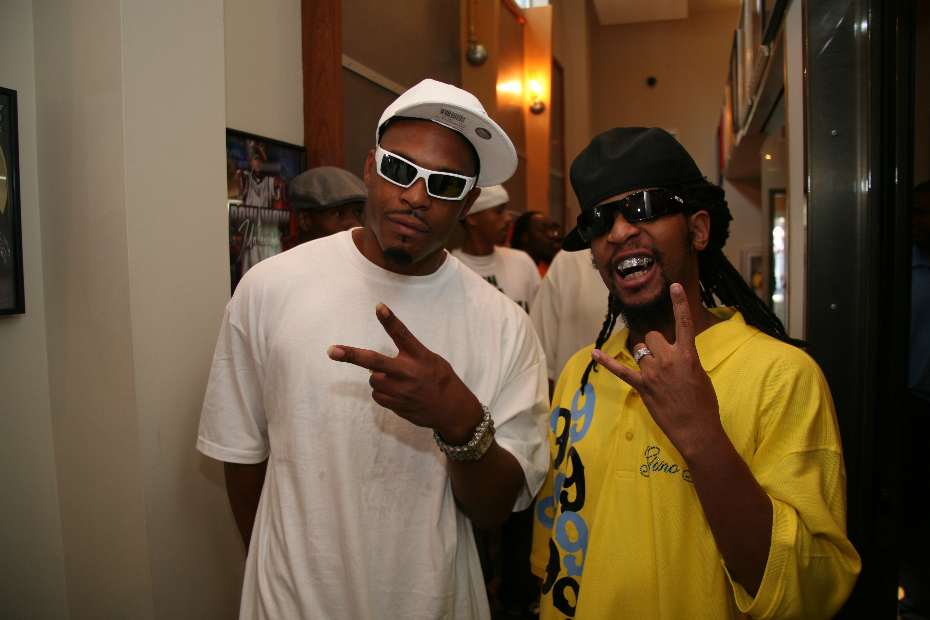 Fabo and Lil Jon at an exclusive preview of the video game Halo 3.